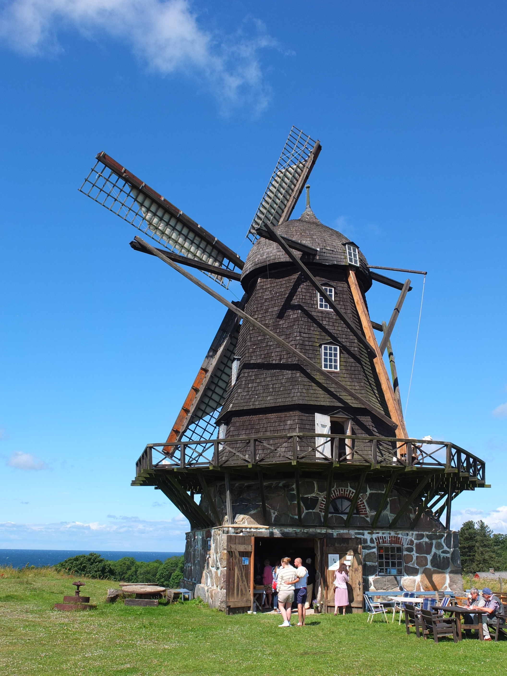 Bräcke Mölle in Scania, Sweden, a Smock mill.